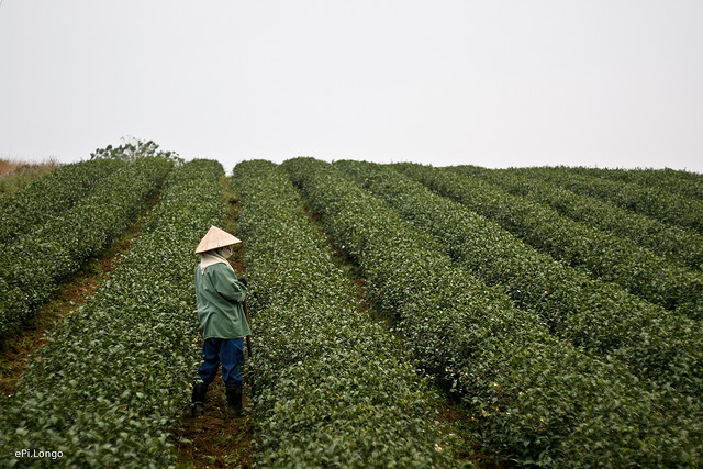 Tea plant in Moc Chau District, Son La Province, Vietnam